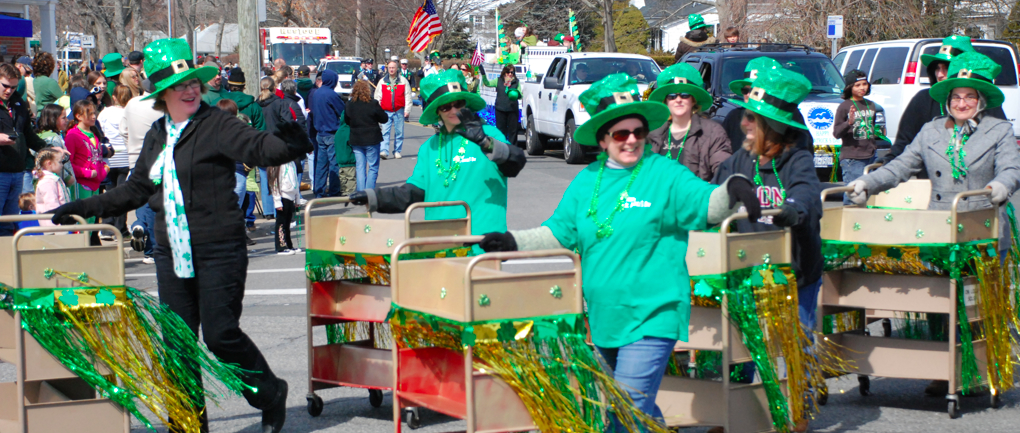 In the Westhampton Beach St. Patrick's Day Parade. Westhampton Beach, New York, US